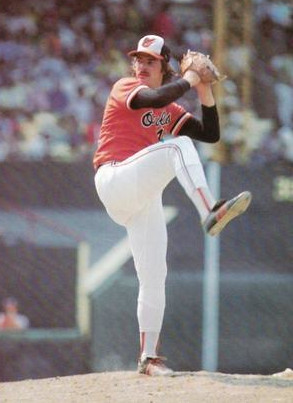 Professional baseball player Mike Flanagan